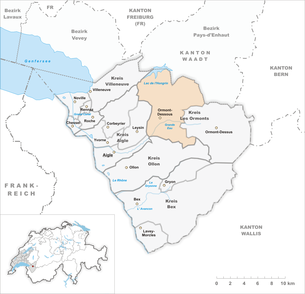 Municipality Ormont-Dessous